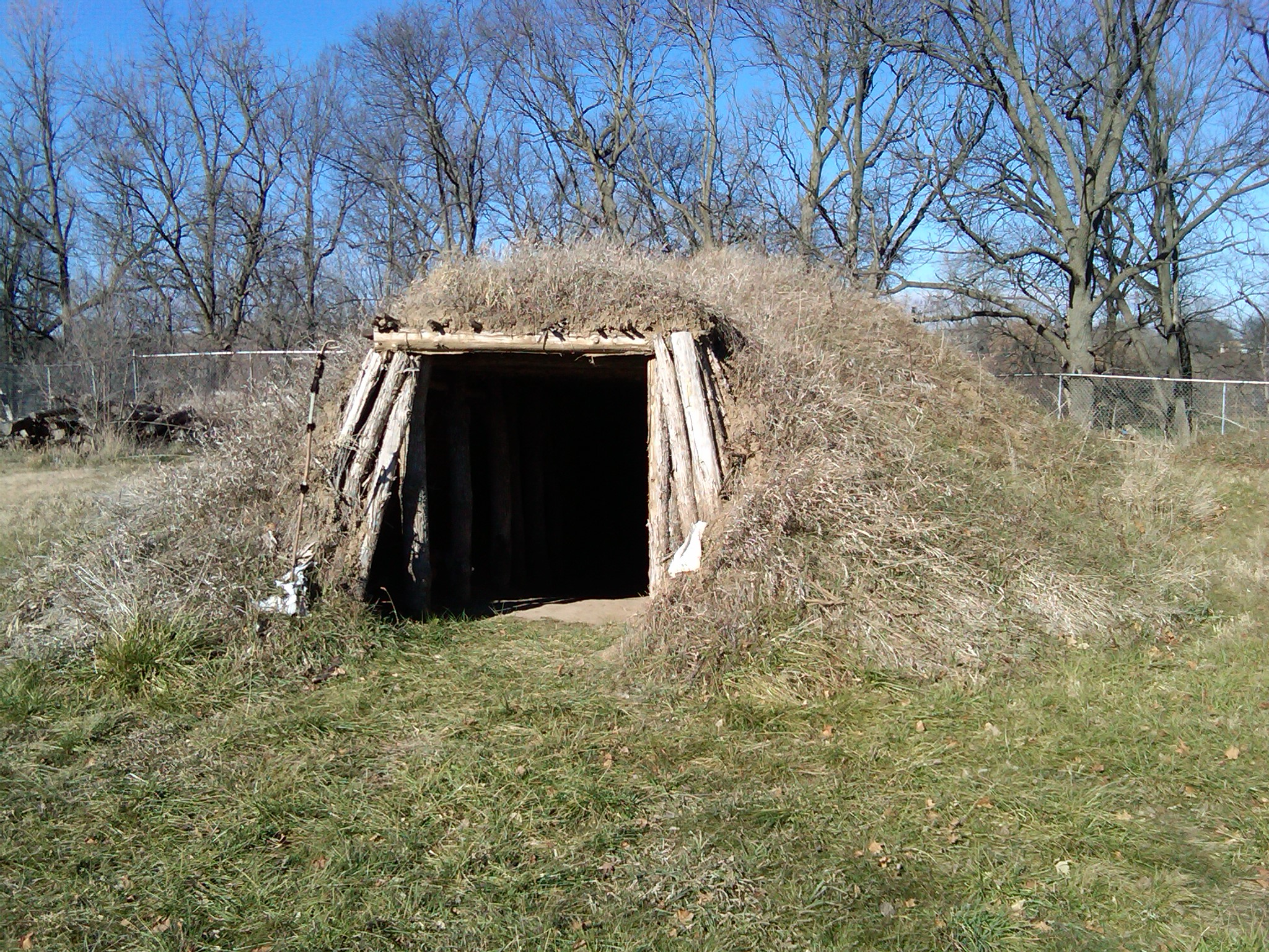 West Oak Forest Earthlodge Site